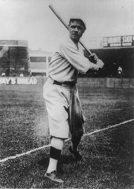 [Babe Ruth, full-length portrait, standing, facing front, holding up bat, in baseball uniform, on field]